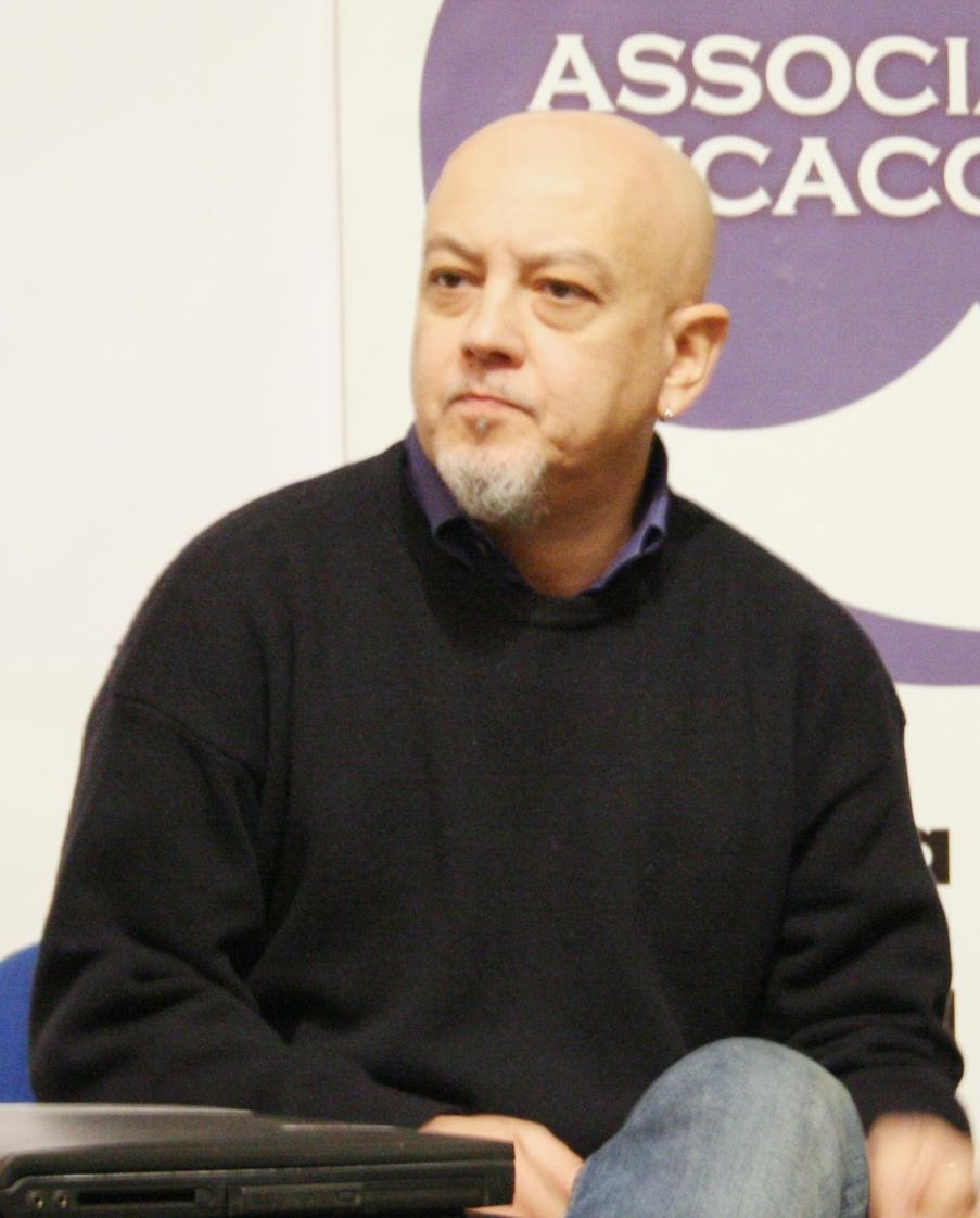 Italian singer-songwriter Enrico Ruggeri on 15 December 2006, during the press conference launching the subscriptions to the Italian Radicals political party.